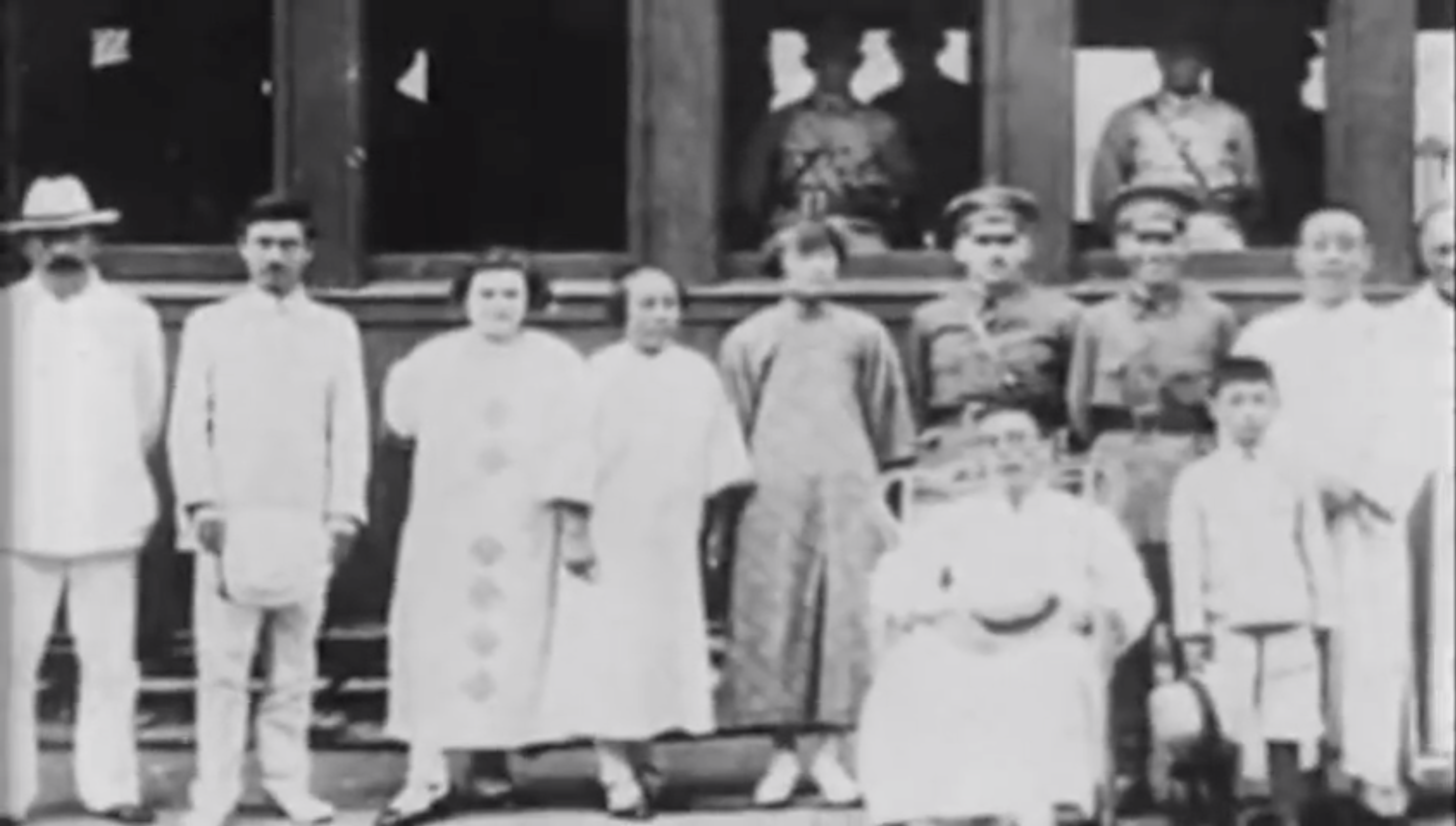 Chiang Kai-shek prepares to leave Guangzhou for the Northern Expedition. From left, Mikhail Borodin, Fanya, Mme. Liao Zhongkai, Chiang Kai-shek's wife, Vasily Blyukher, Chiang Kai-shek, his son Chiang Ching-kuo. Chiang's elder brother Chang Chiang-chiang is seated in front, with Chiang Wei-kuo beside him.